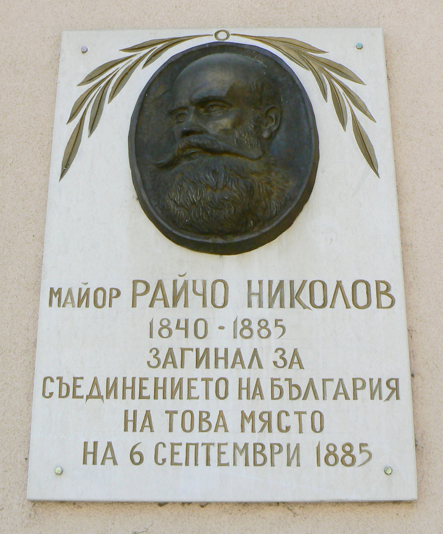 Memorial plaque for major Raycho Nikolov (1840-1885) in the centre of Plovdiv, Bulgaria